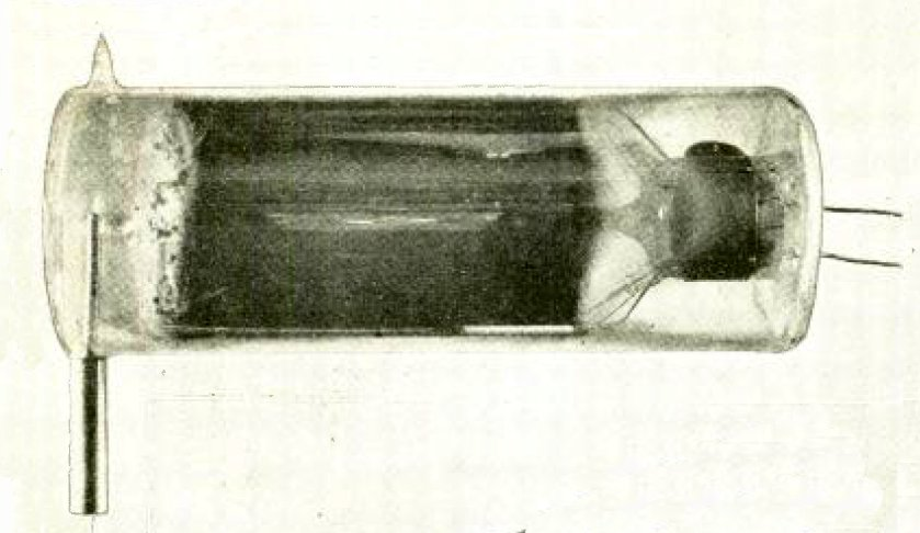 One of the first experimental video camera tubes, called an image dissector, designed by American engineer Philo T. Farnsworth in 1930.